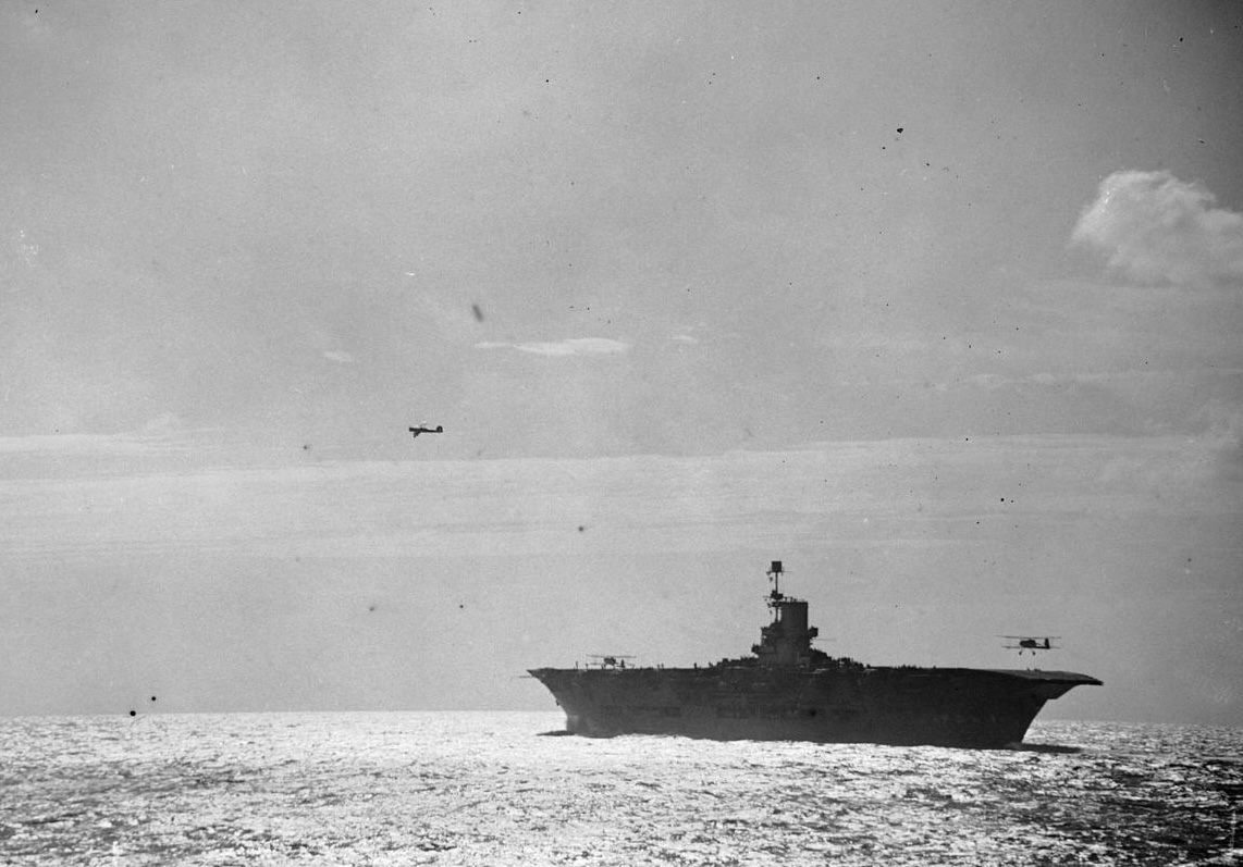 Blackburn Skuas and Fairey Swordfish aircraft landing on the deck of HMS ARK ROYAL after attacking the Italian Fleet during the action off Sardinia. Photograph taken from HMS KELVIN. One Italian cruiser and two Italian destroyers were damaged in this action.